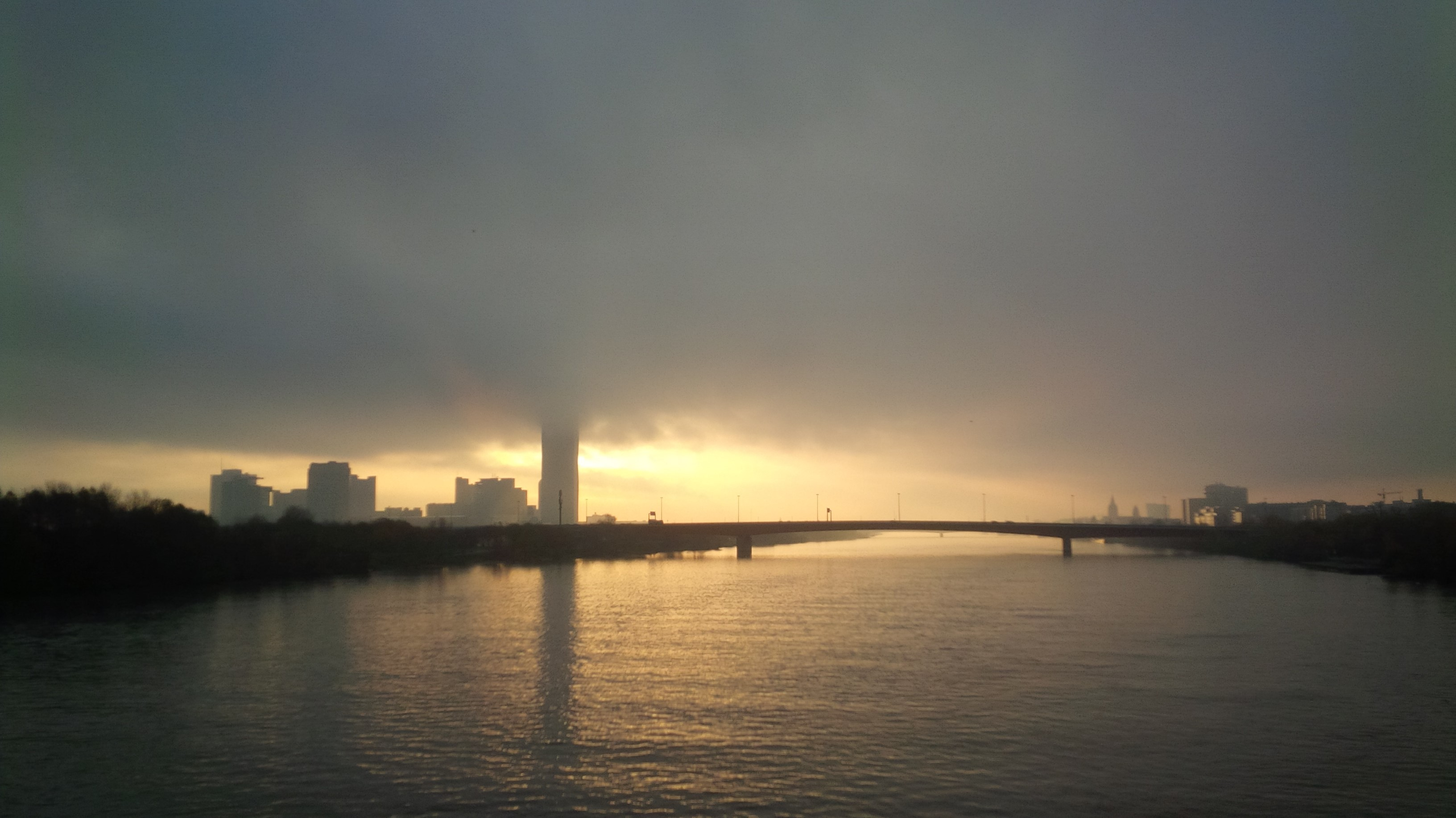 View south of the Danube, taken from Georg-Danzer-Steg.